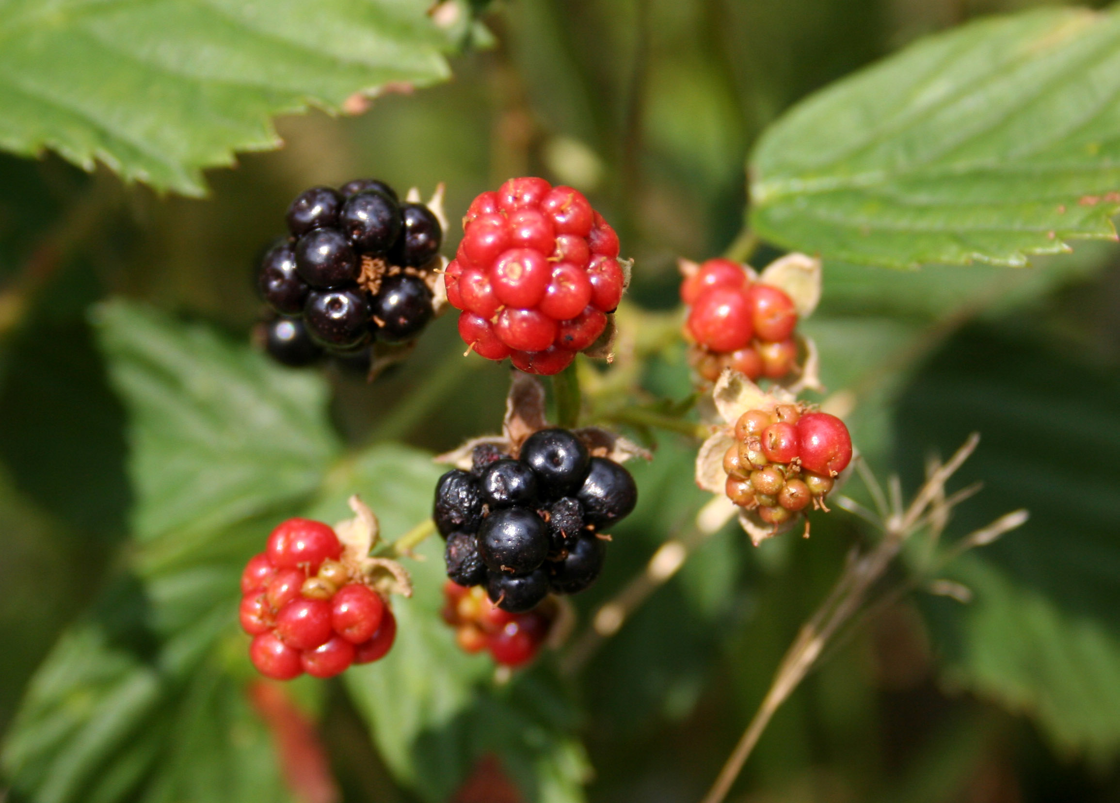 Blackberry - fruit